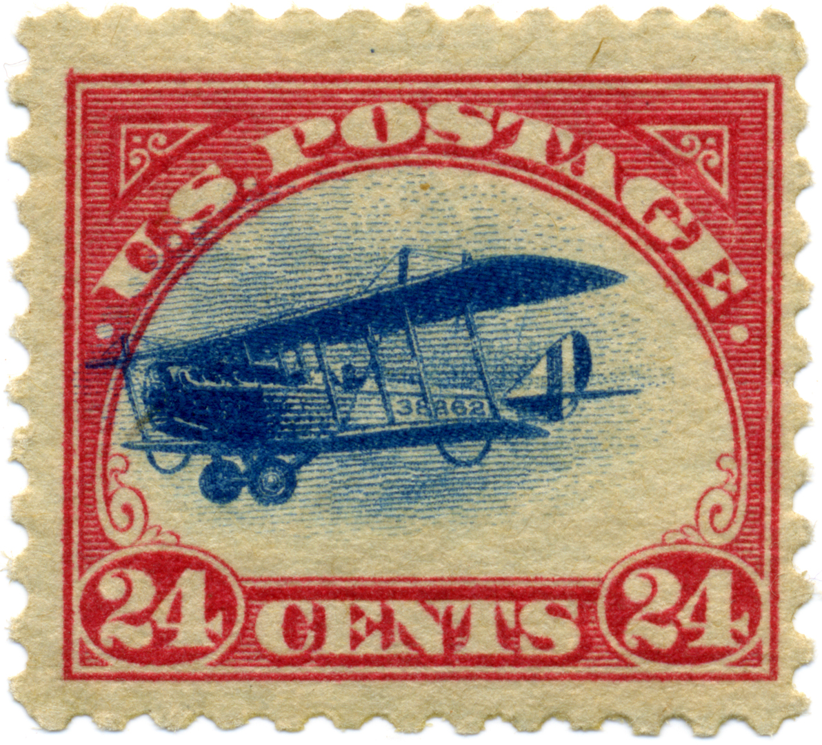 24-cent 1918 air mail United States postage stamp, depicting the Curtiss Jenny, Scott Catlog number C3, "Fast Plane" variation.